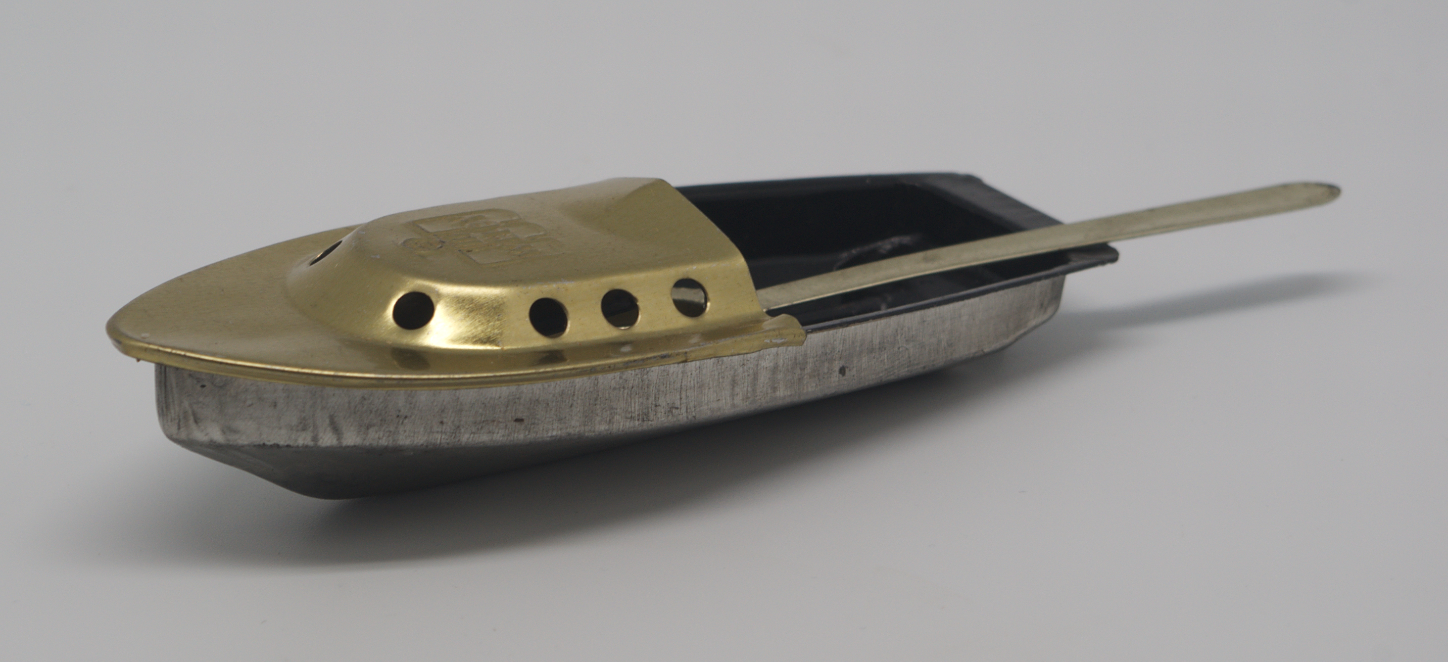 Bateau pop pop